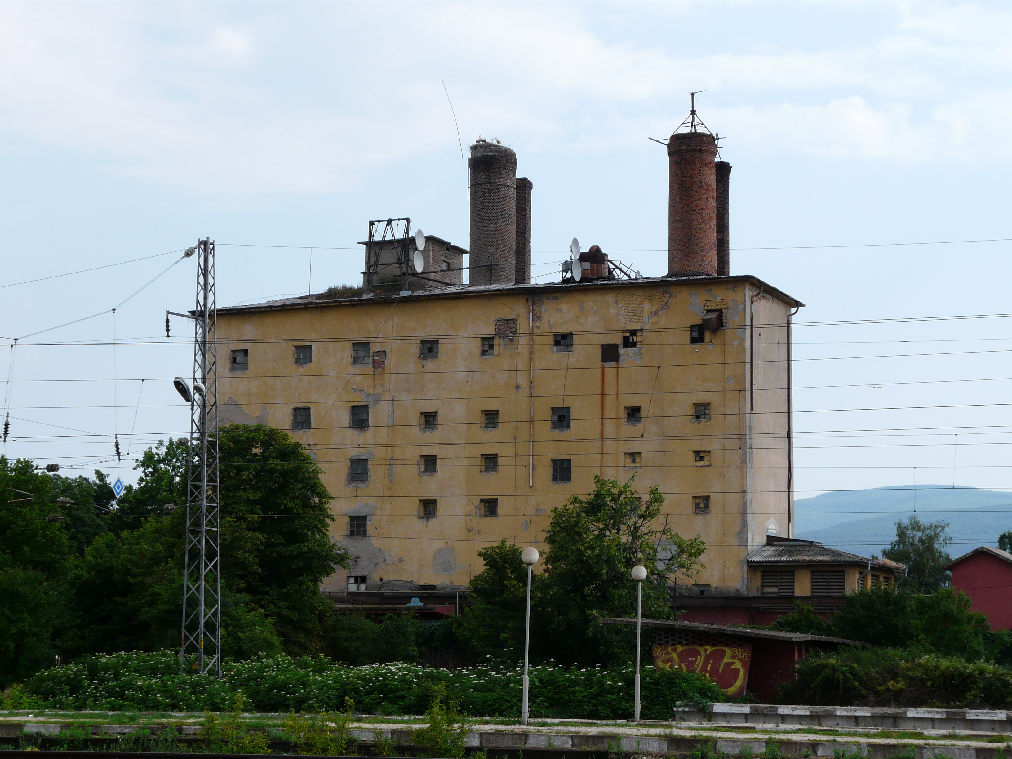 The malt factory at Gara Elin Pelin